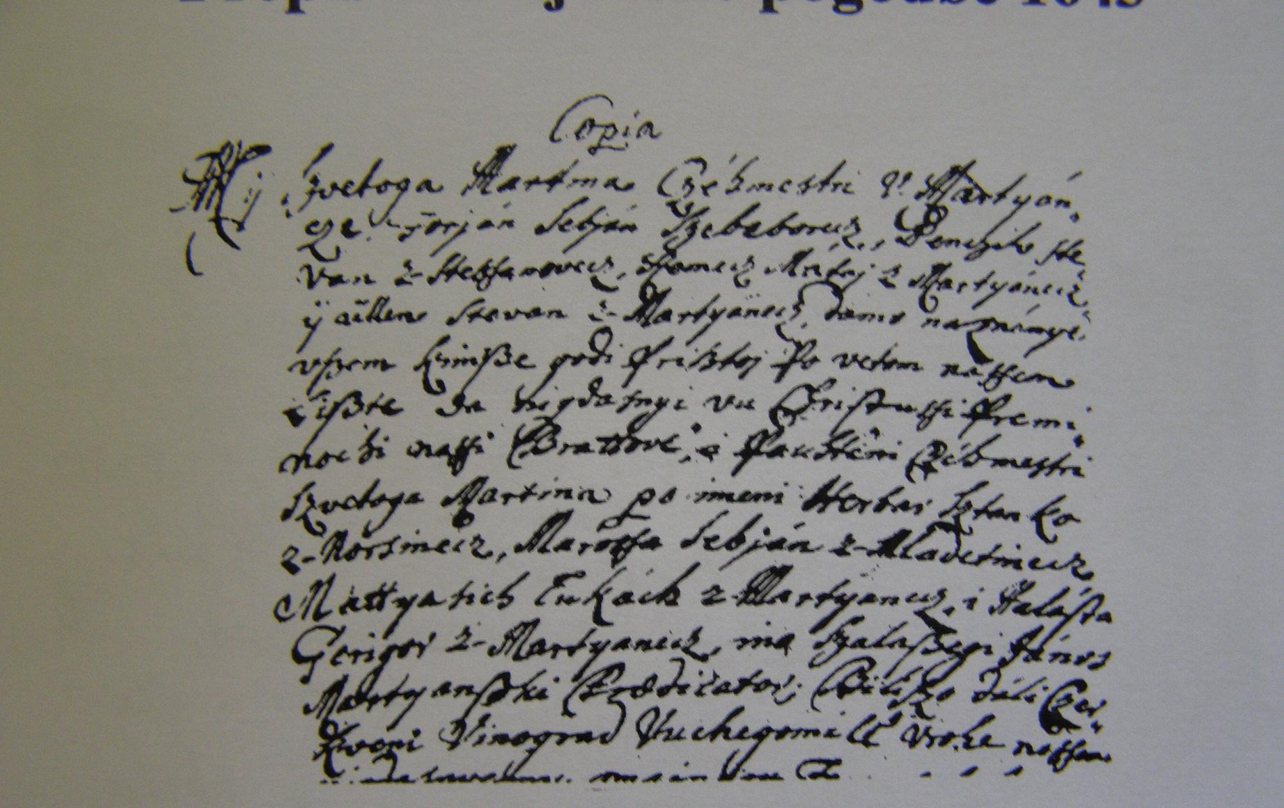 The agreement of Martjanci, 1643